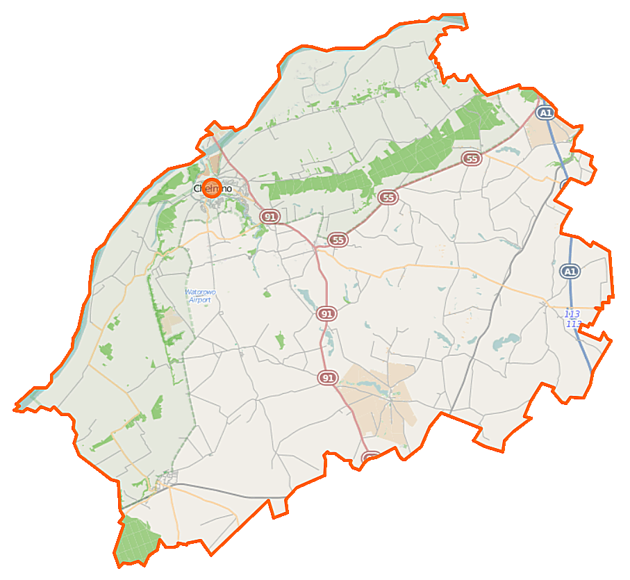 Map of Powiat chełmiński, Poland This map of Powiat chełmiński was created from OpenStreetMap project data, collected by the community. This map may be incomplete, and may contain errors. Don't rely solely on it for navigation. Border coordinates53.438218.2558←↕→18.754353.1637